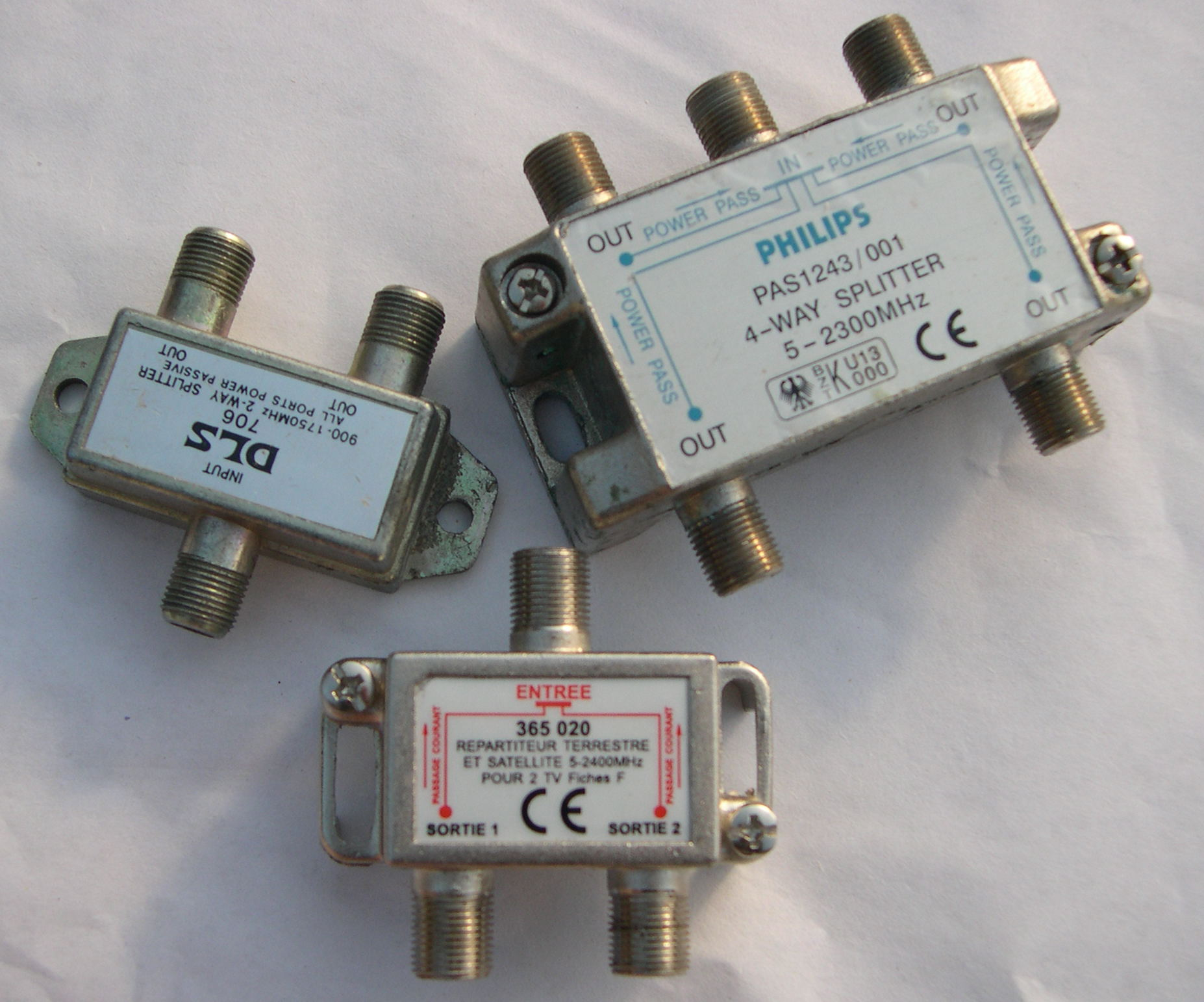 Coaxial cable splitters with F connectors. These are used with cable television systems to divide the incoming cable television signal to feed 3 or 4 televisions.